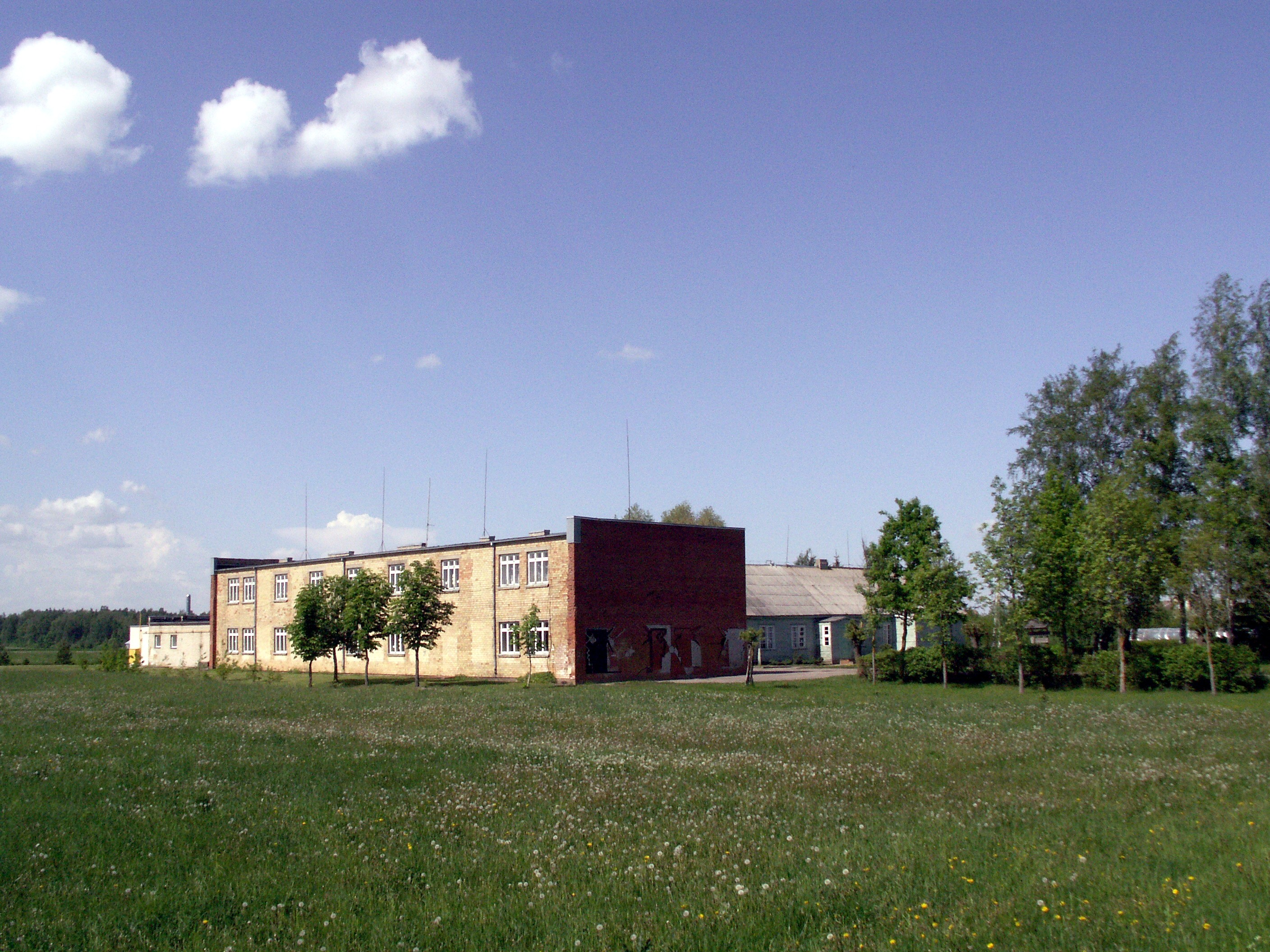 Naisiai shool, Šiauliai district, Lithuania